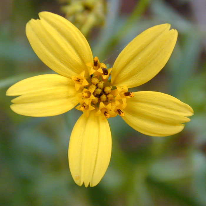 Category:Bidens torta — Corkscrew beggarticks, flower head close up.' At Kolekole Pass, Schofield Barracks, O'ahu, Hawai'i. Credits Taken December 30, 2002 by Eric Guinther and released under the GNU Free Documentation License. All remaining rights reserved.